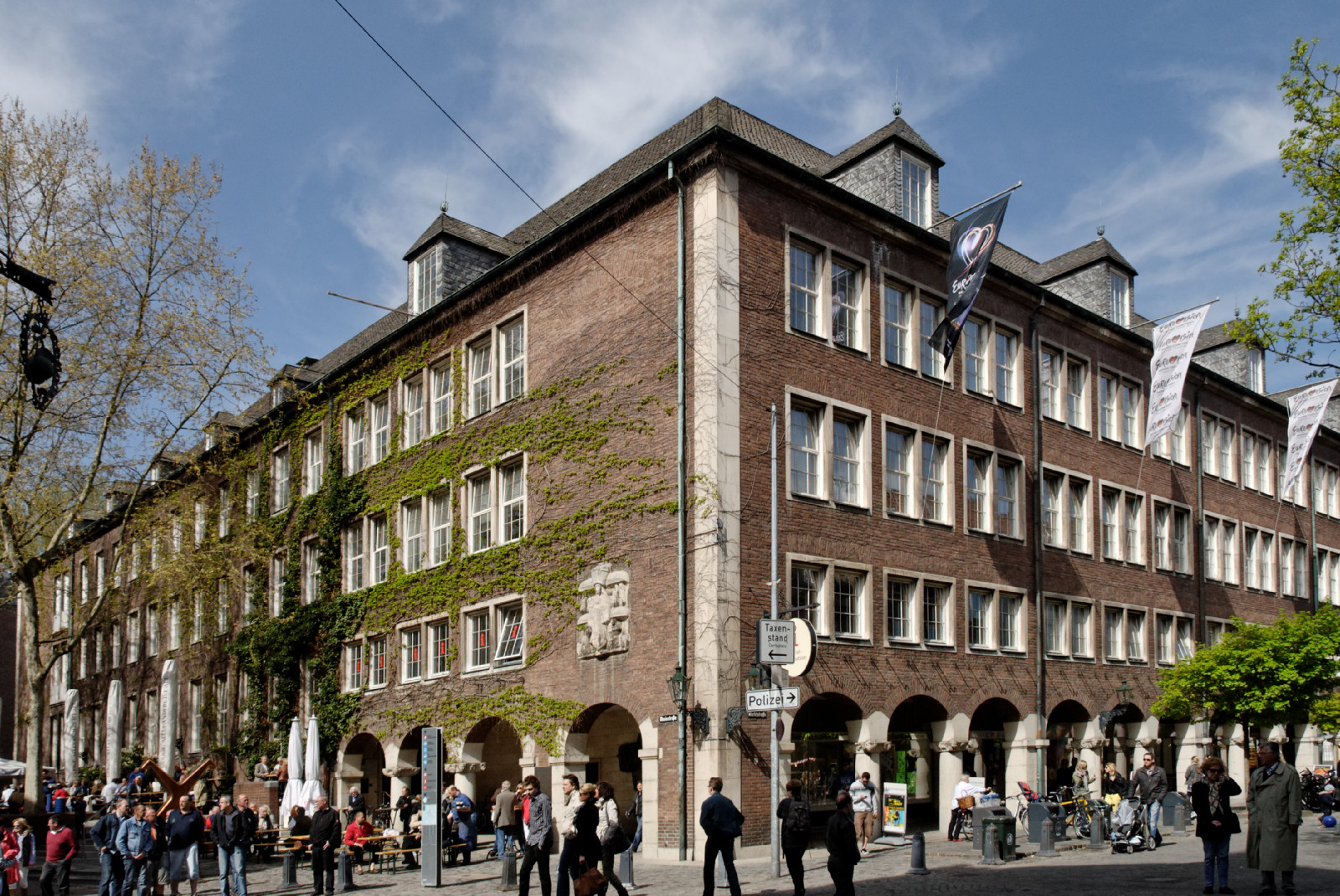 Building Marktplatz 6 in Düsseldorf-Altstadt, Germany